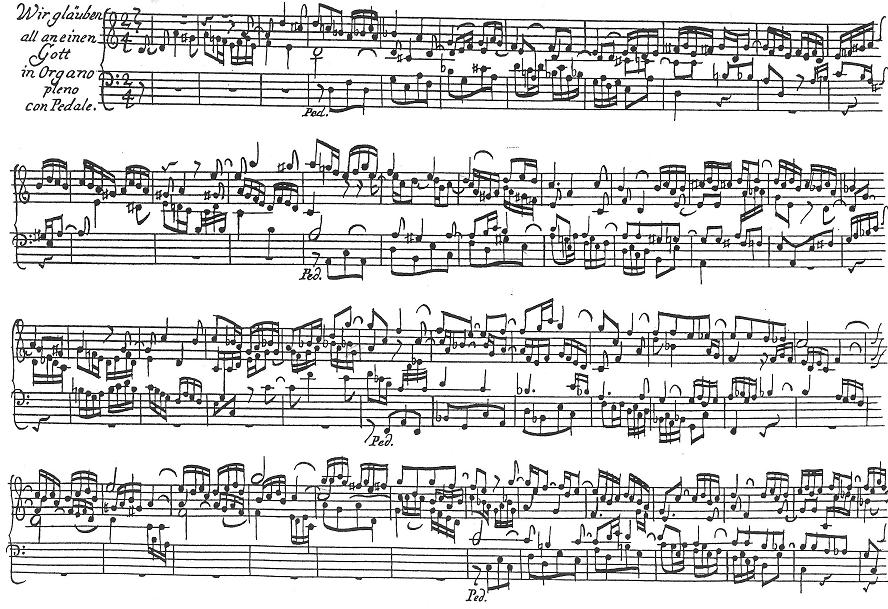 First page of original print of BWV 680 Wir glauben all' an einen Gott from Clavier-Übung III